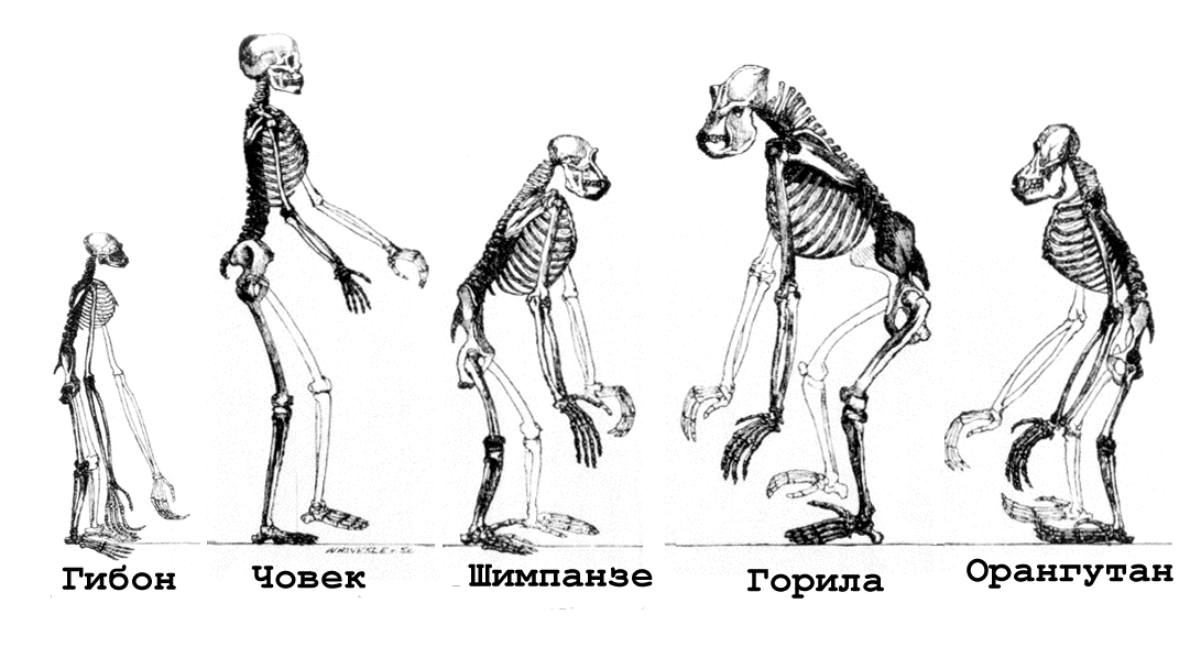 Modification of Image:Ape skeletons.png